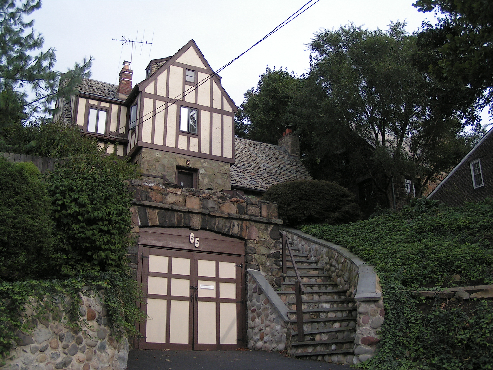 A tudor home on Fort Hill, Staten Island. Hannahgoldstein (talk) 22:06, 20 December 2007 (UTC)HG